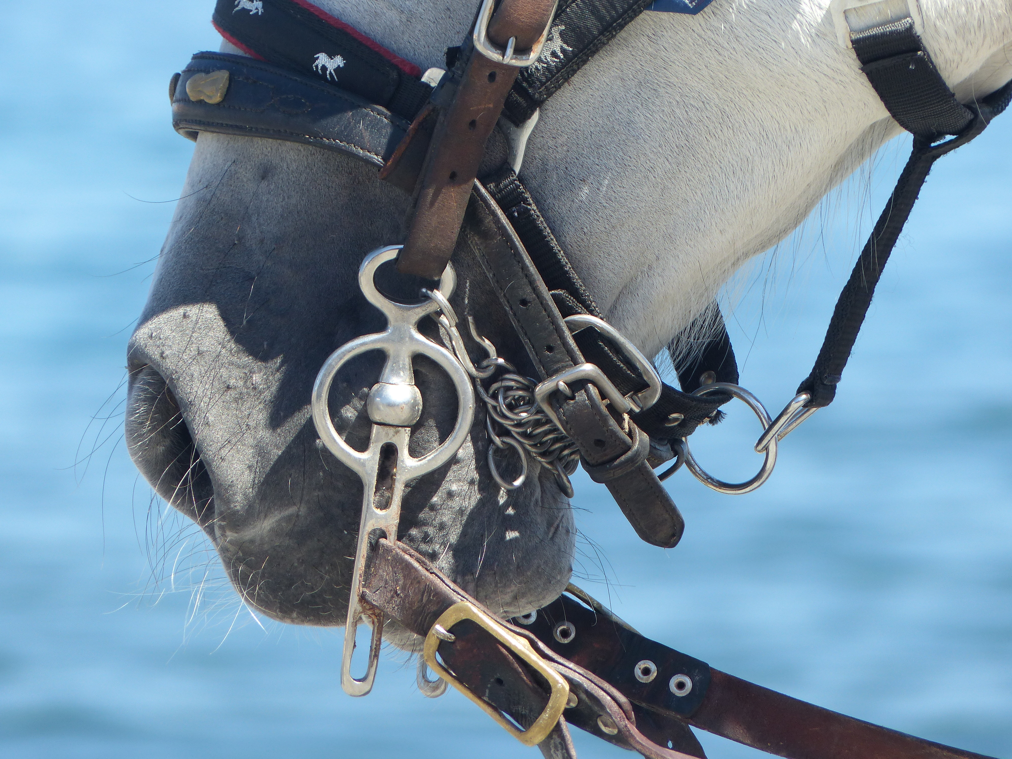 Liverpool bit on a grey carriage horse, Chania / Χανιά, Crete.